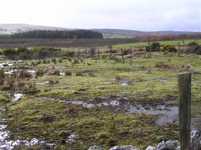 Meenagoland Townland Looking south-west between Third and Fourth Corgarys